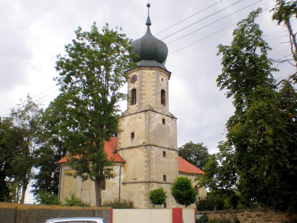 Dřenice, Cheb, Czech Republic; church of St. Ulrich